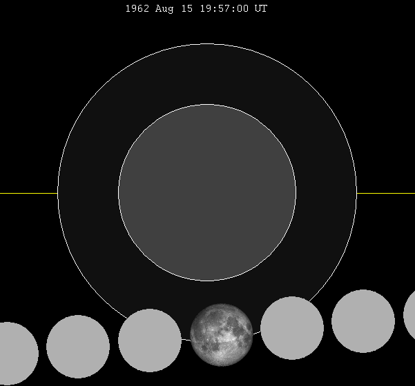 August 1962 lunar eclipse chart of moon's path through the earth's shadow. thumb